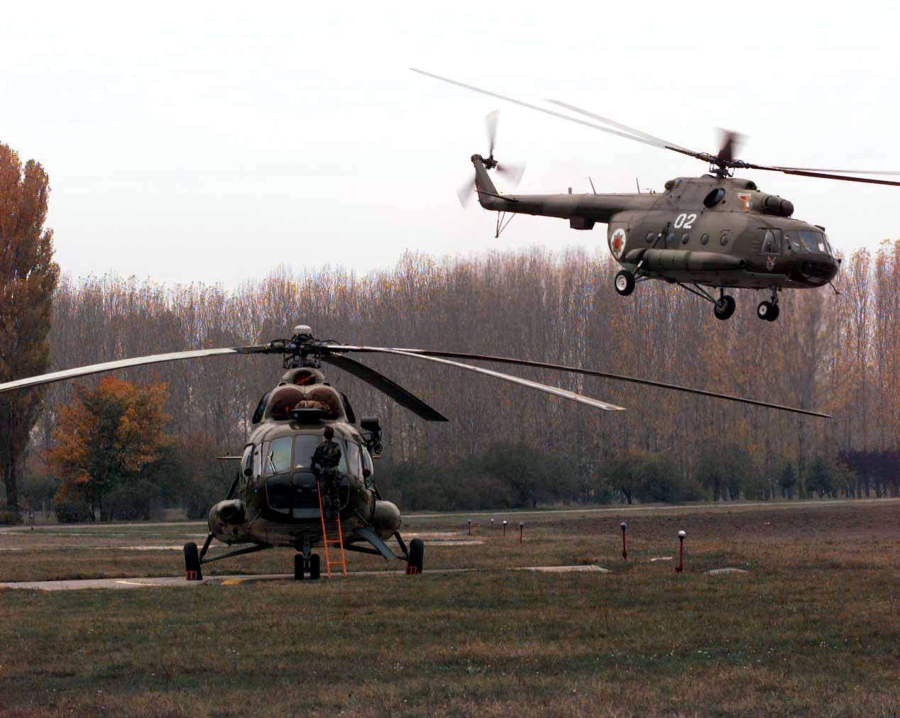 Two Muldovan helicopters take off and land at Otopeni Air Base, just north of Romania's capitol during the Partnership for Peace exercise COOPERATIVE KEY '96. Participating NATO Air Forces from Greece, Italy, Turkey and the United States will join the nations of Slovakia, Muldavia, Czech Republic and the host nation Romania.